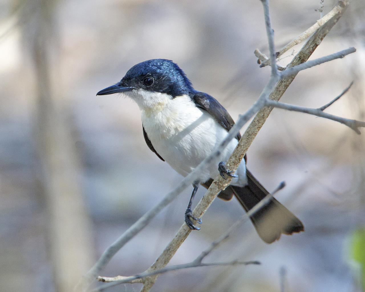 Restless Flycatcher Myiagra inquieta Fogg Dam, Northern Territory, Australia August 2010 690V7755